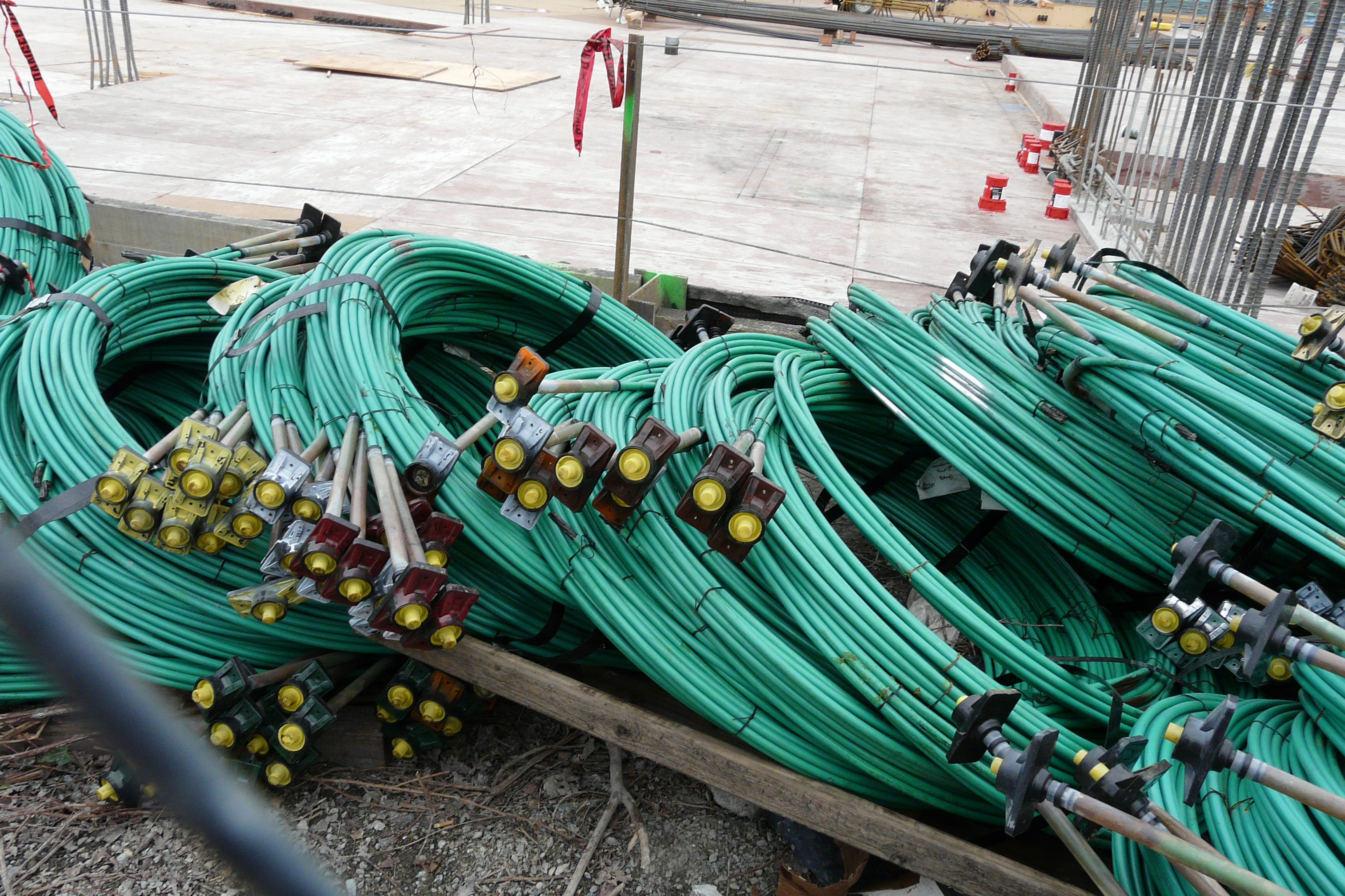 Rolls of post-tensioning cables